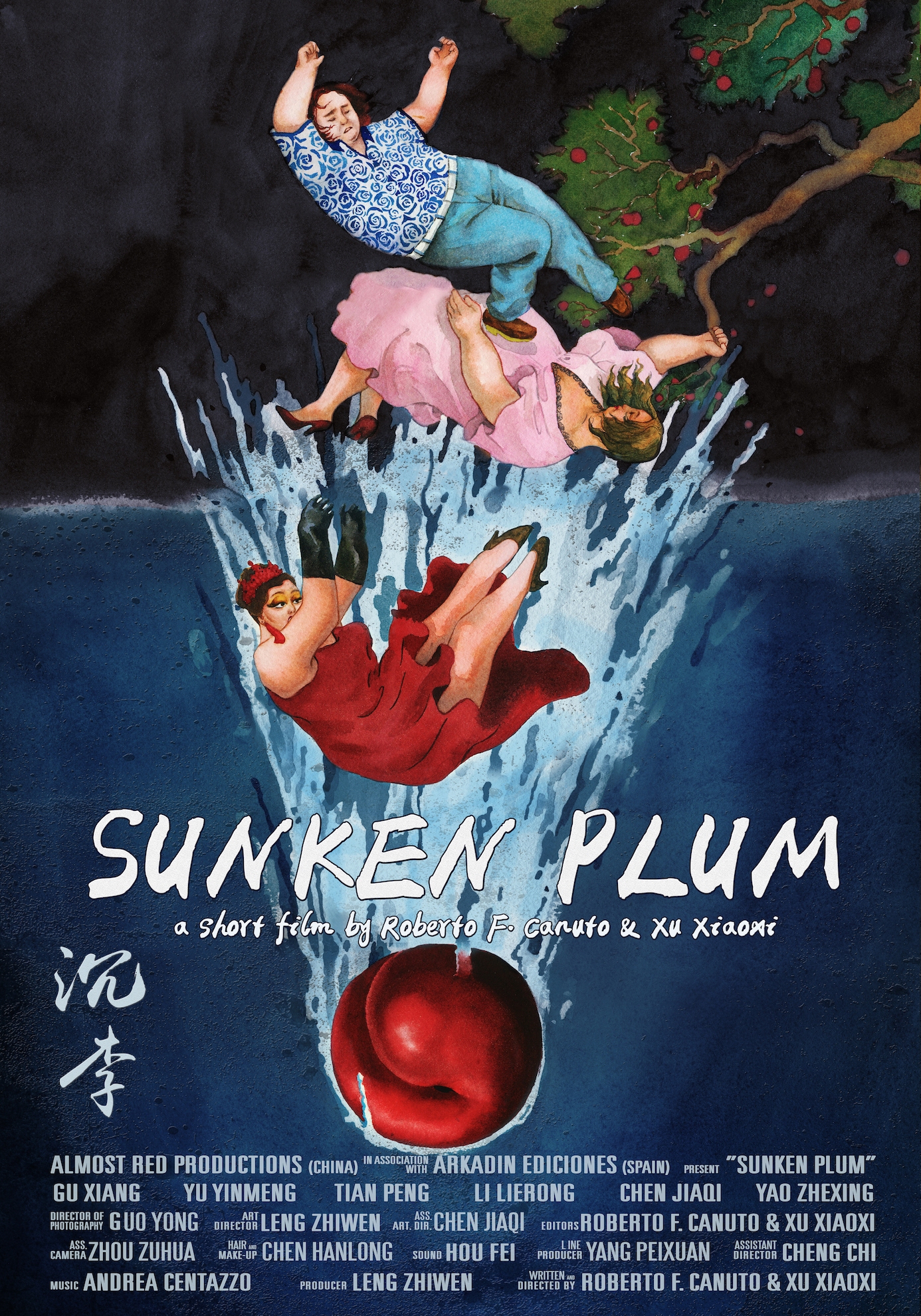 International Poster of Sunken Plum (Ciruela de agua dulce, Chen Li), a short film directed by Roberto F. Canuto and Xu Xiaoxi